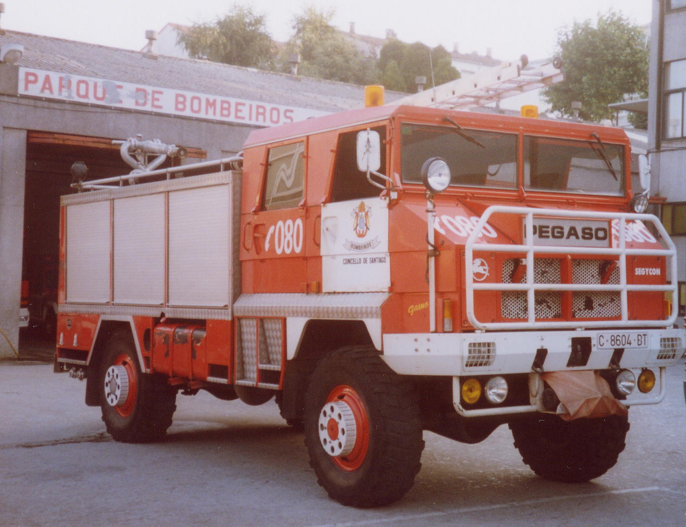 Pegaso 7217 firefighting truck in Santiago de Compostela (Spain), 2004.